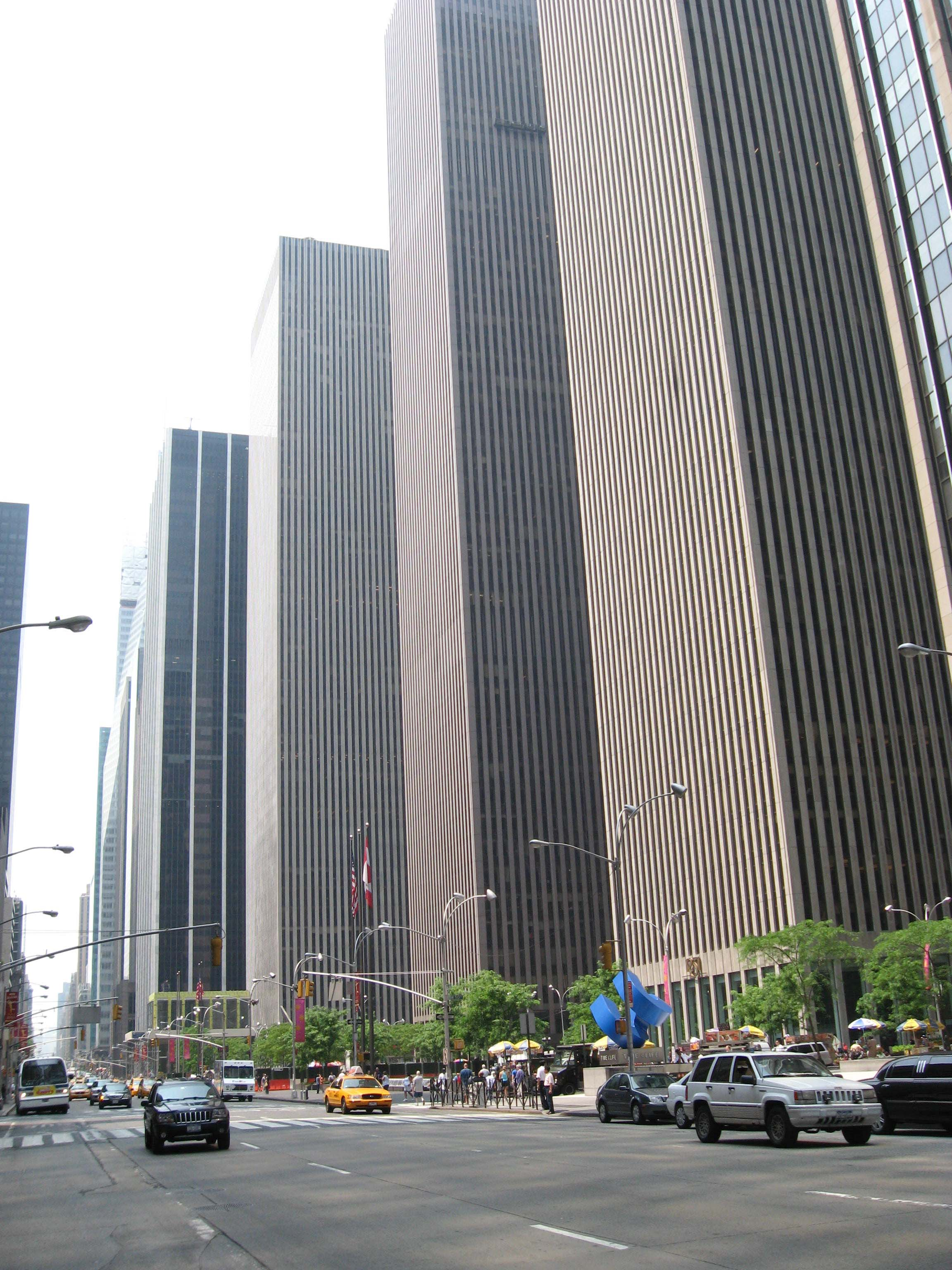 Looking southwest at the "new" Rockefeller Center on the west side of 6th Avenue on a mostly sunny afternoon in mid June 2008.